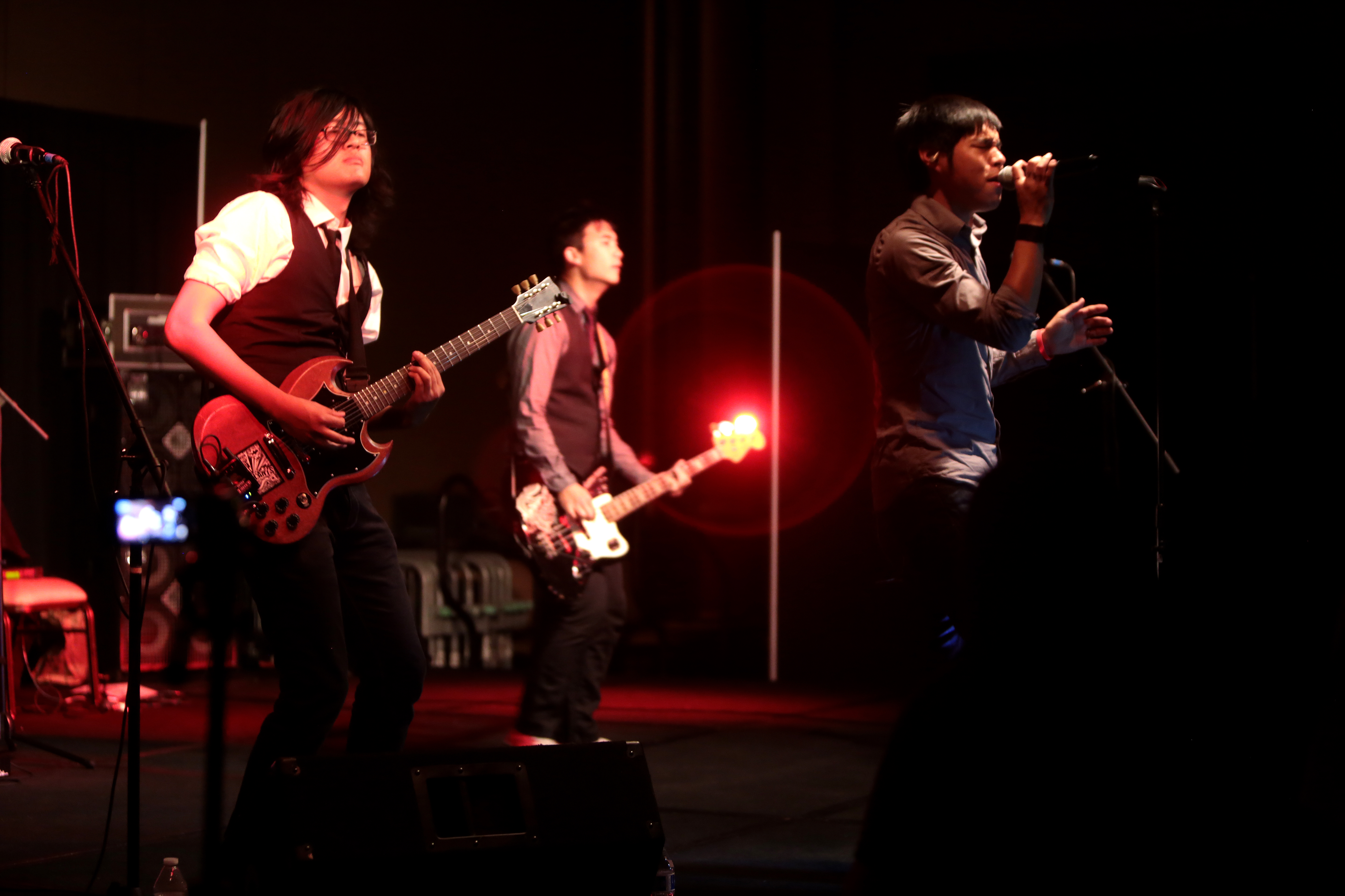 The Slants performing at Saboten Con in Phoenix, Arizona.